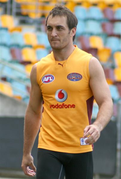 Daniel Bradshaw at a Brisbane Lions public training session in 2008.